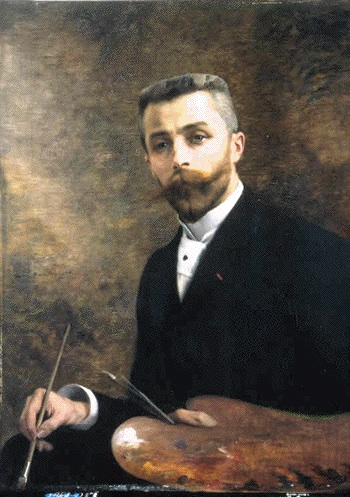 Autoportrait